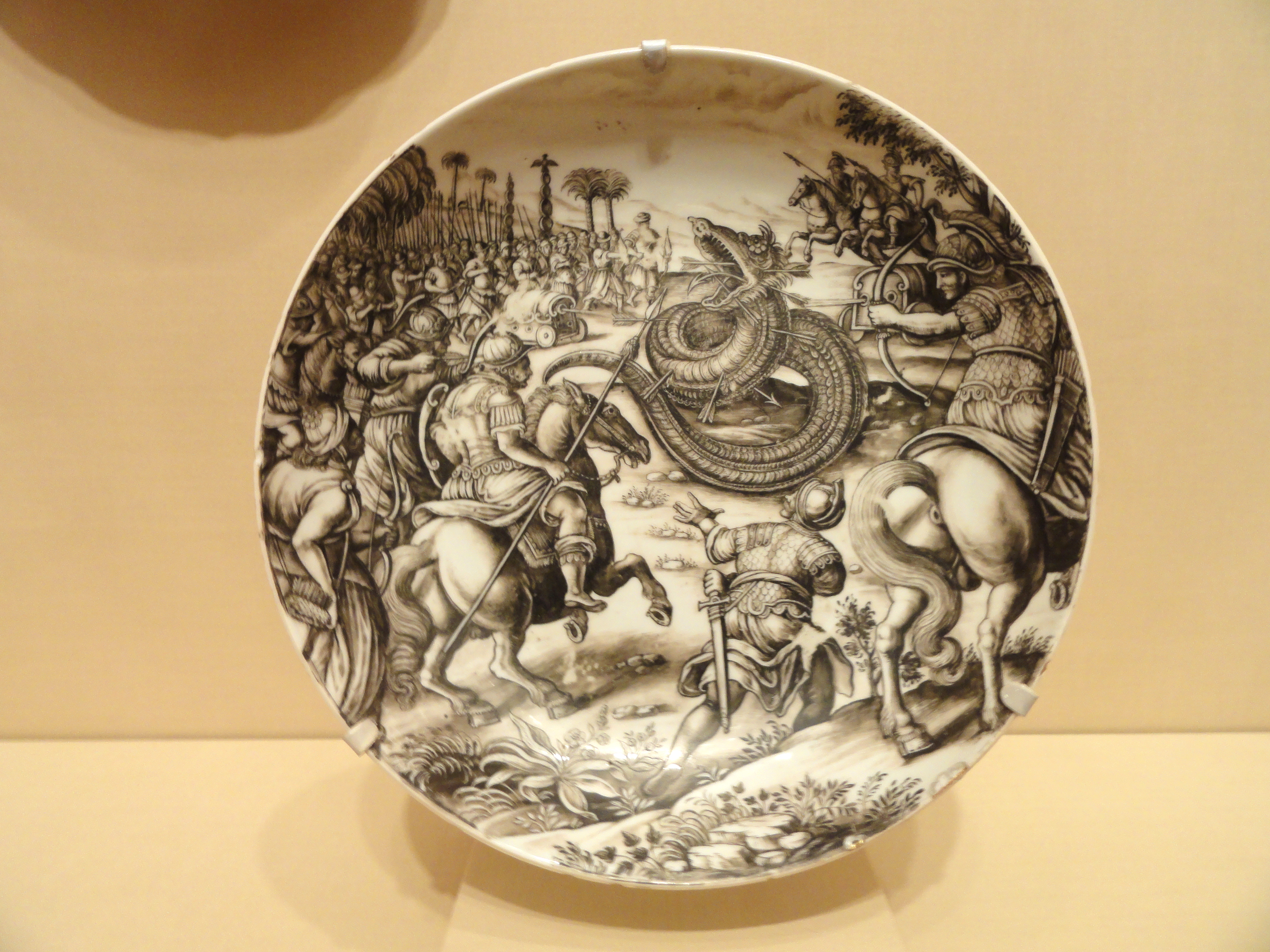 Exhibit in the Nelson-Atkins Museum of Art, Kansas City, Missouri. This artwork is old enough so that it is in the public domain, and the museum permitted photography without restriction. I took this photograph and release it into the public domain.